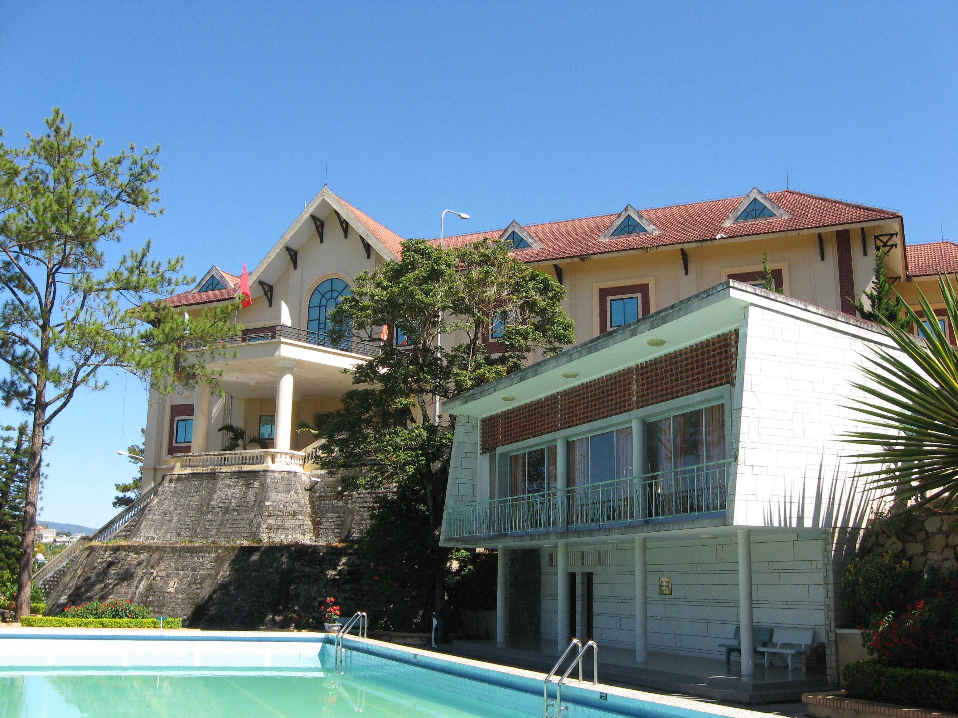 Bach Ngoc villa, Tran Le Xuan Villa